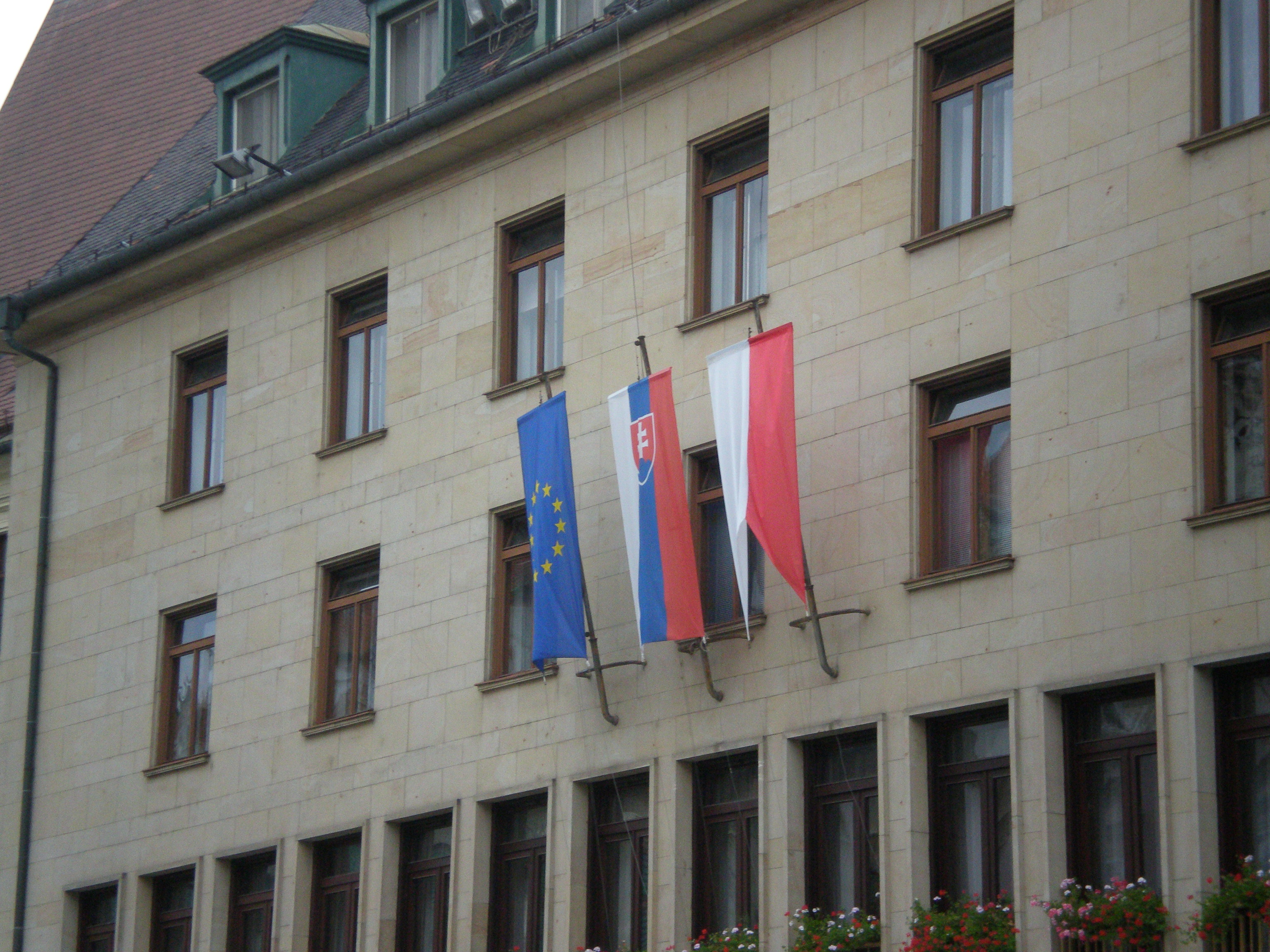 Flag of Europe (vertical, probably unofficial), vertical flag of Slovakia and vertical flag of Bratislava. July 2007, Bratislava (Frantiskanske namestie).